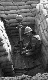 A British Army soldier with a trench mortar in a sandbagged pit. Location : Mesopotamia Comment : The mortar is a Vickers 2 inch Medium Mortar. NOTE : This version of the photograph has brightness and contrast artificially increased to highlight details. NOTE 2 : The AWM text dates this photograph as "circa 1918" but IWM Q24286 dates this as 1917.